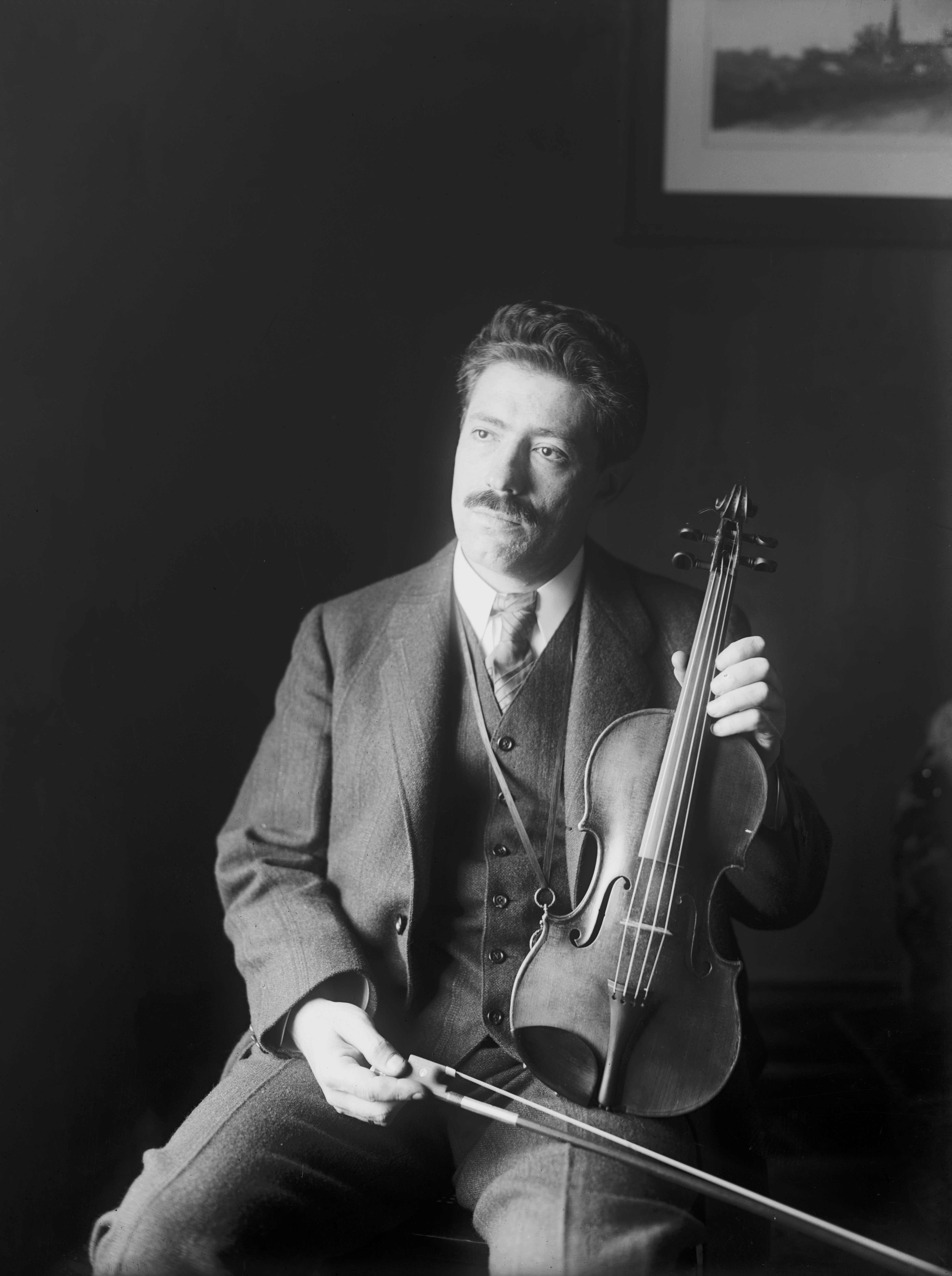 Fritz Kreisler (1875 – 1962), Austria-born American violinist and composer